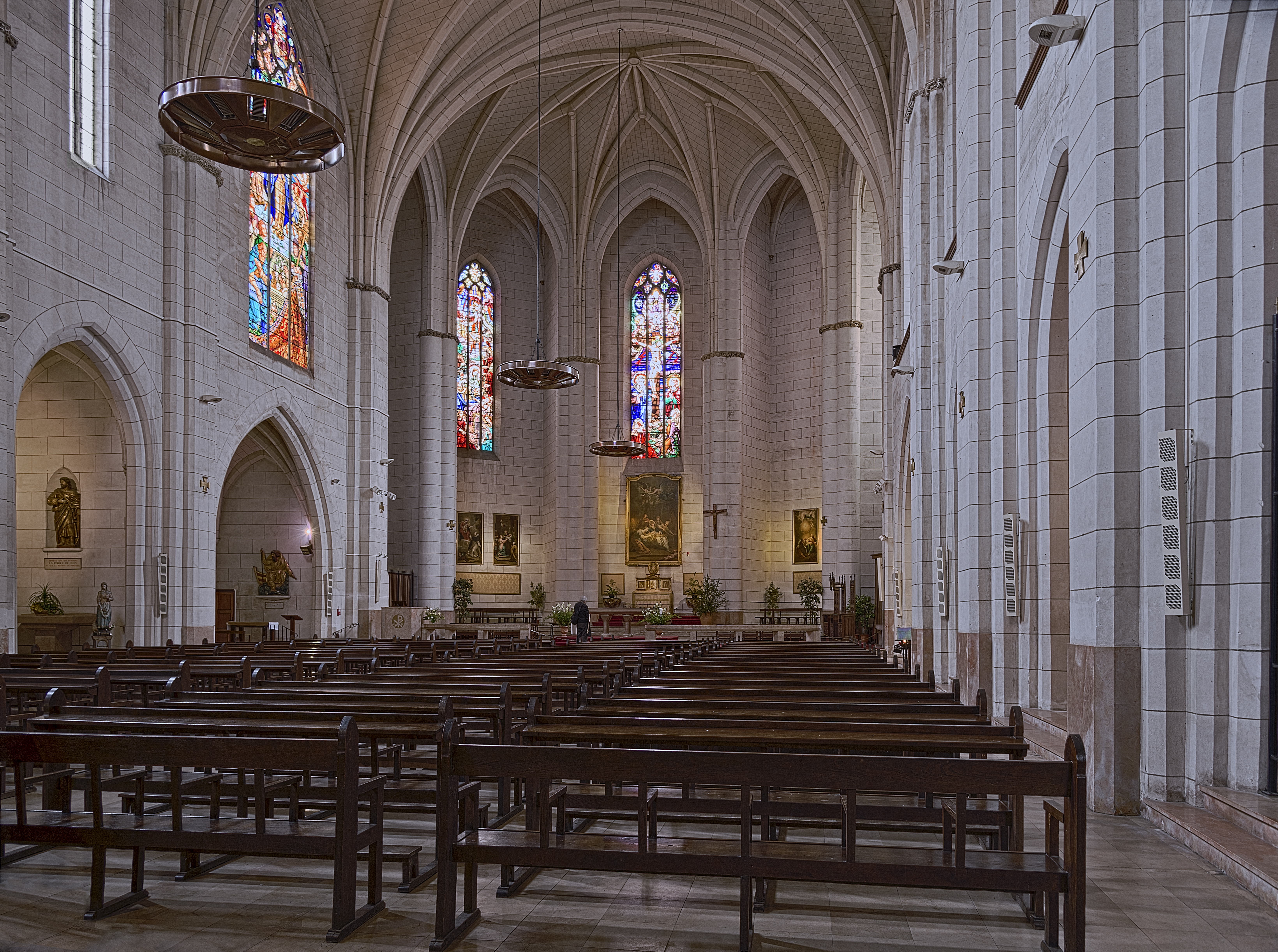 Notre-Dame de la Dalbade in Toulouse. Interior view of the nave.